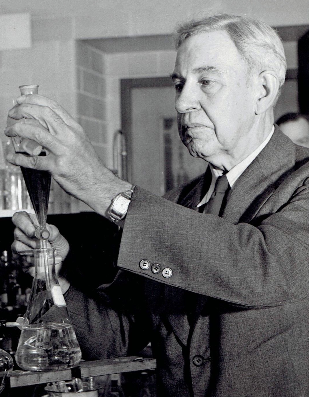 1943 Vintage Photo chemist Vladimir Ipatieff discovers alternative fuel mixtures